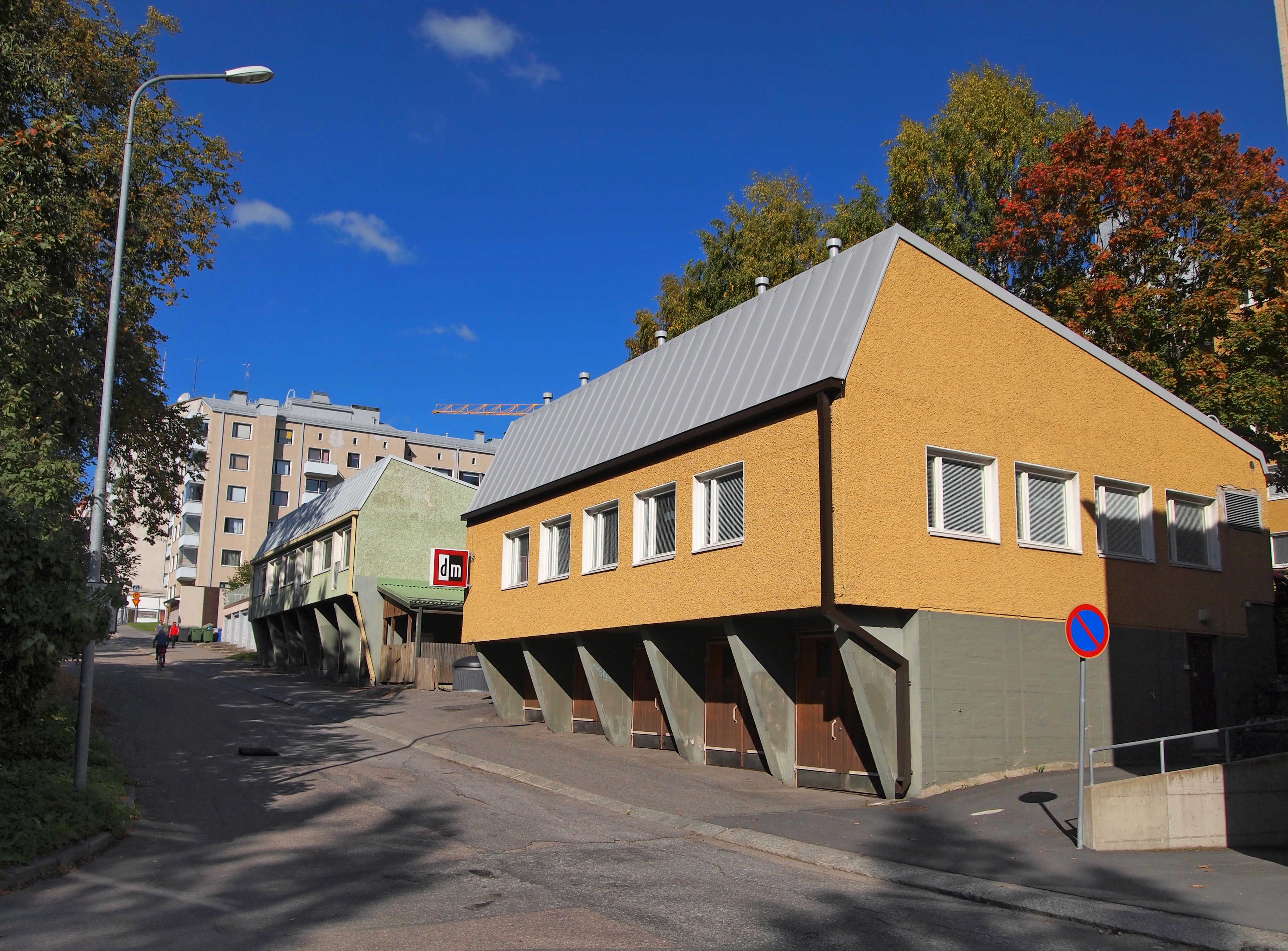 Apartment buildings on the street Minna Canthin katu in Jyväskylä. This photograph was taken with a Olympus E-PL1.